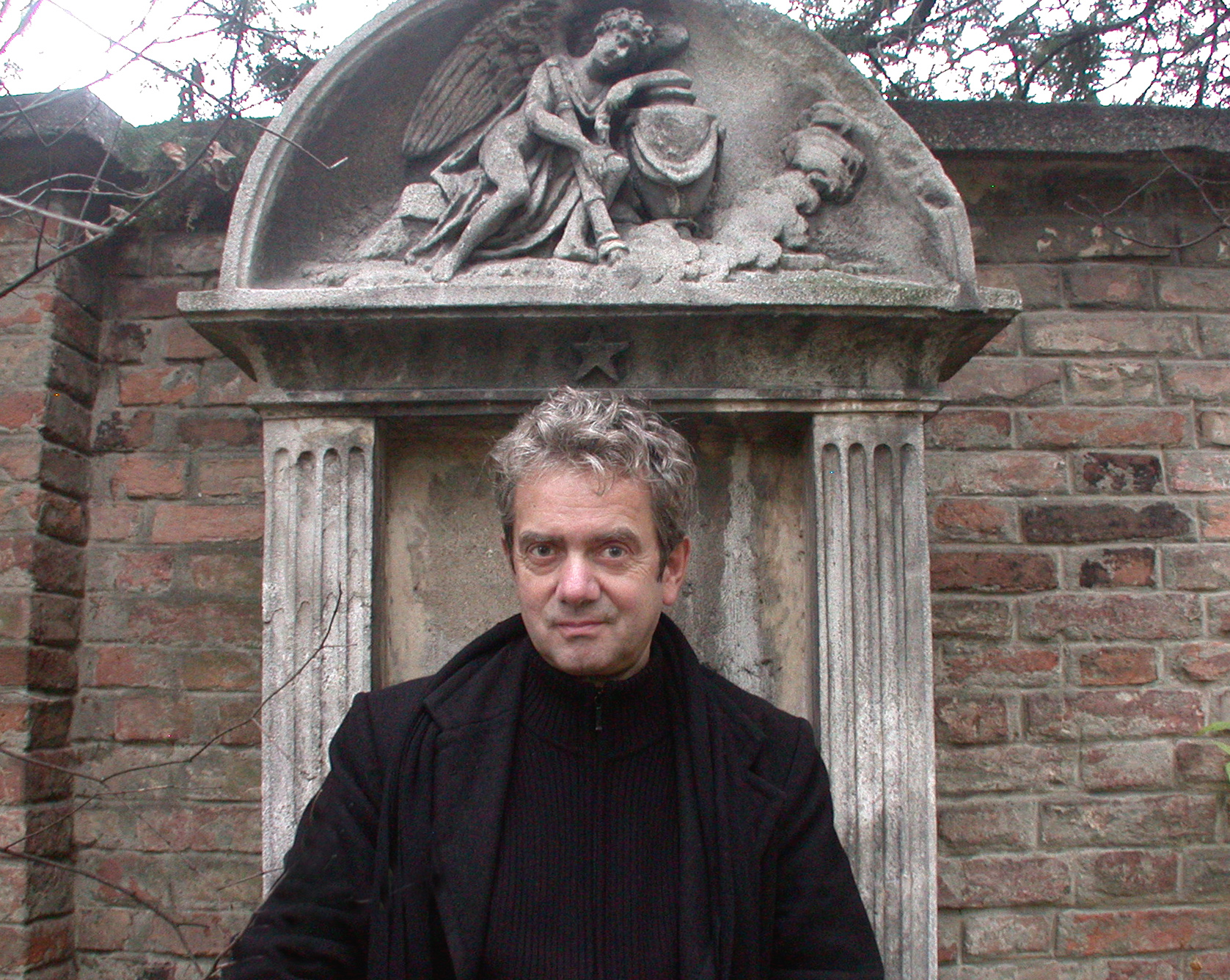 Image of Willy Puchner